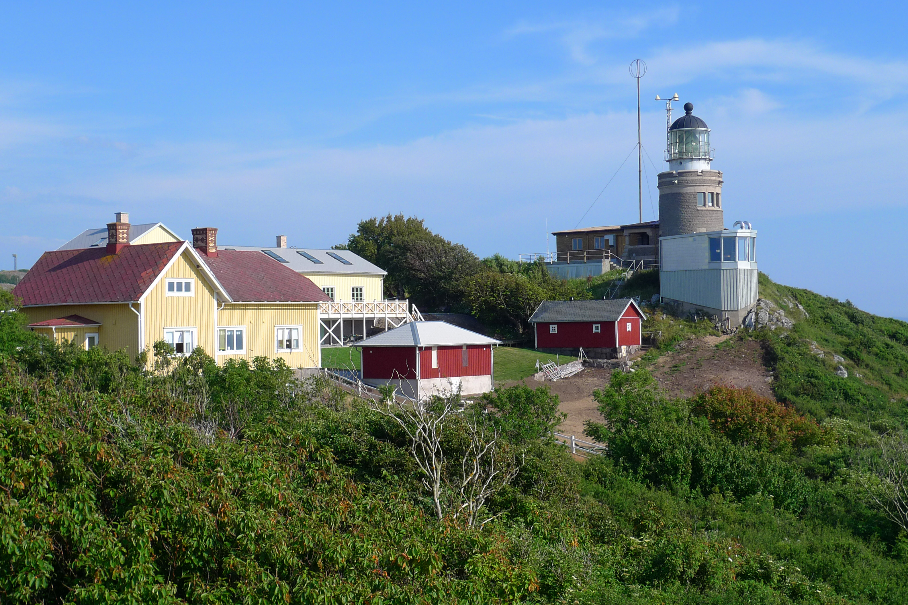 The lighthouse Kullen, Sweden